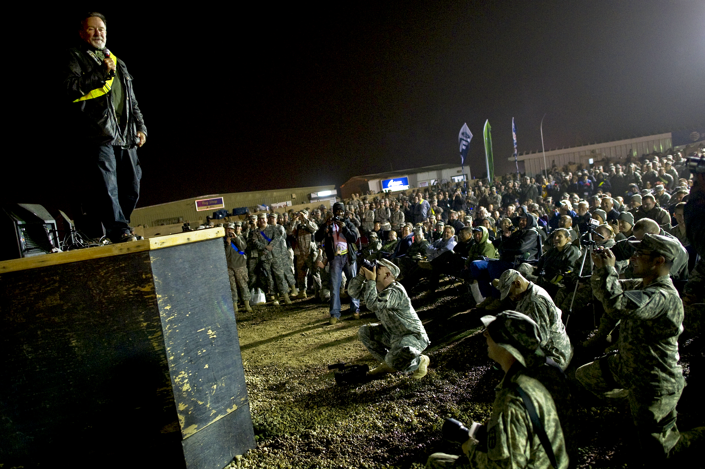 Robin Williams performs at the USO holiday tour show at Camp Victory, Iraq, Dec 13, 2010. U.S. Navy Adm. Mike Mullen, chairman of the Joint Chiefs of Staff and his wife Deborah are hosting the holiday tour featuring Williams along with comedians Lewis Black and Kathleen Madigan Tour de France champion Lance Armstrong and country music artist Kix Brooks, of Brooks and Dunn touring the Central Command area of responsibility.